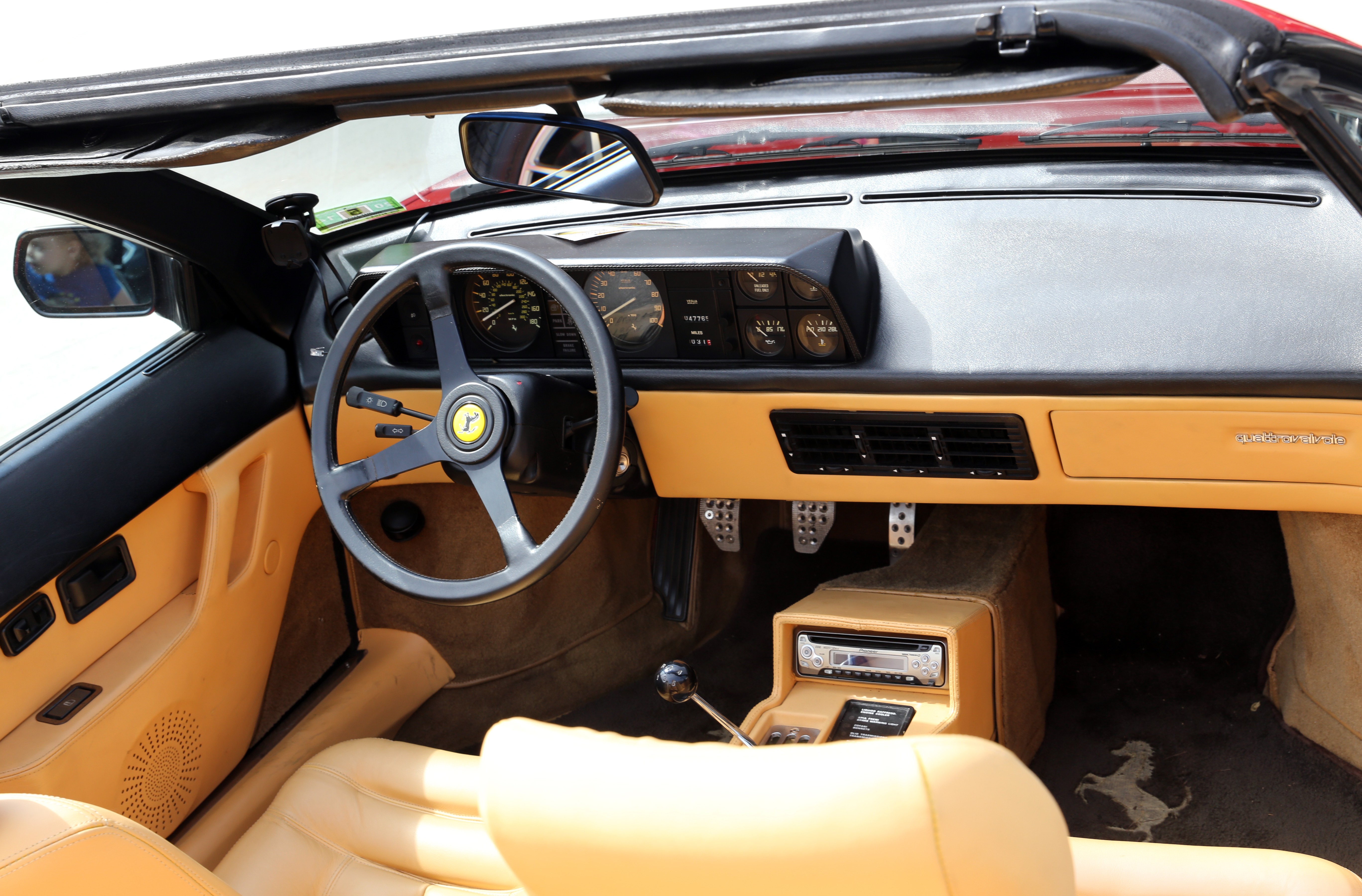 US market Ferrari Mondial 3.2 Cabriolet.